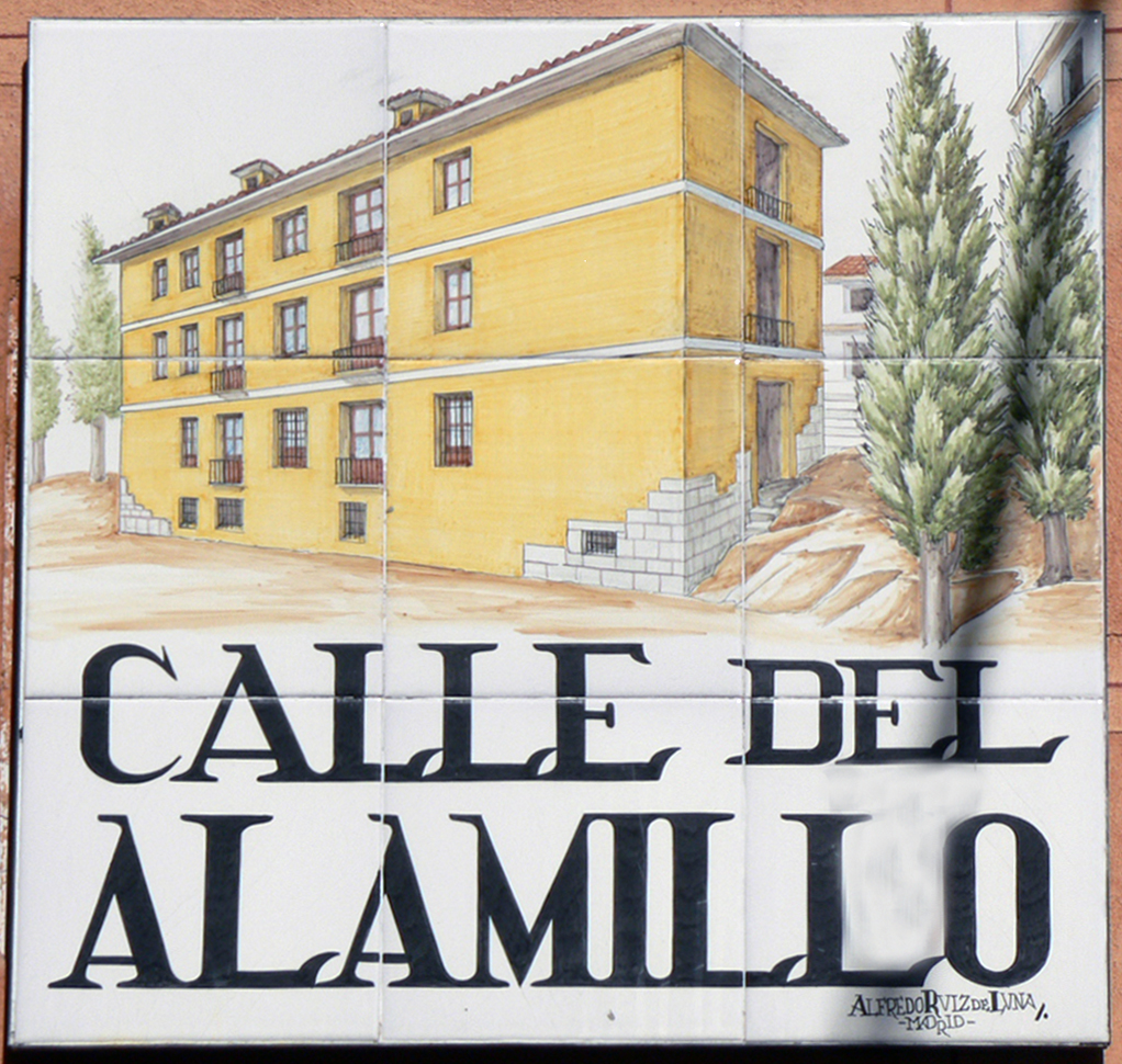 Sign of Calle del Alamillo (street, Centro district) in Madrid (Spain).